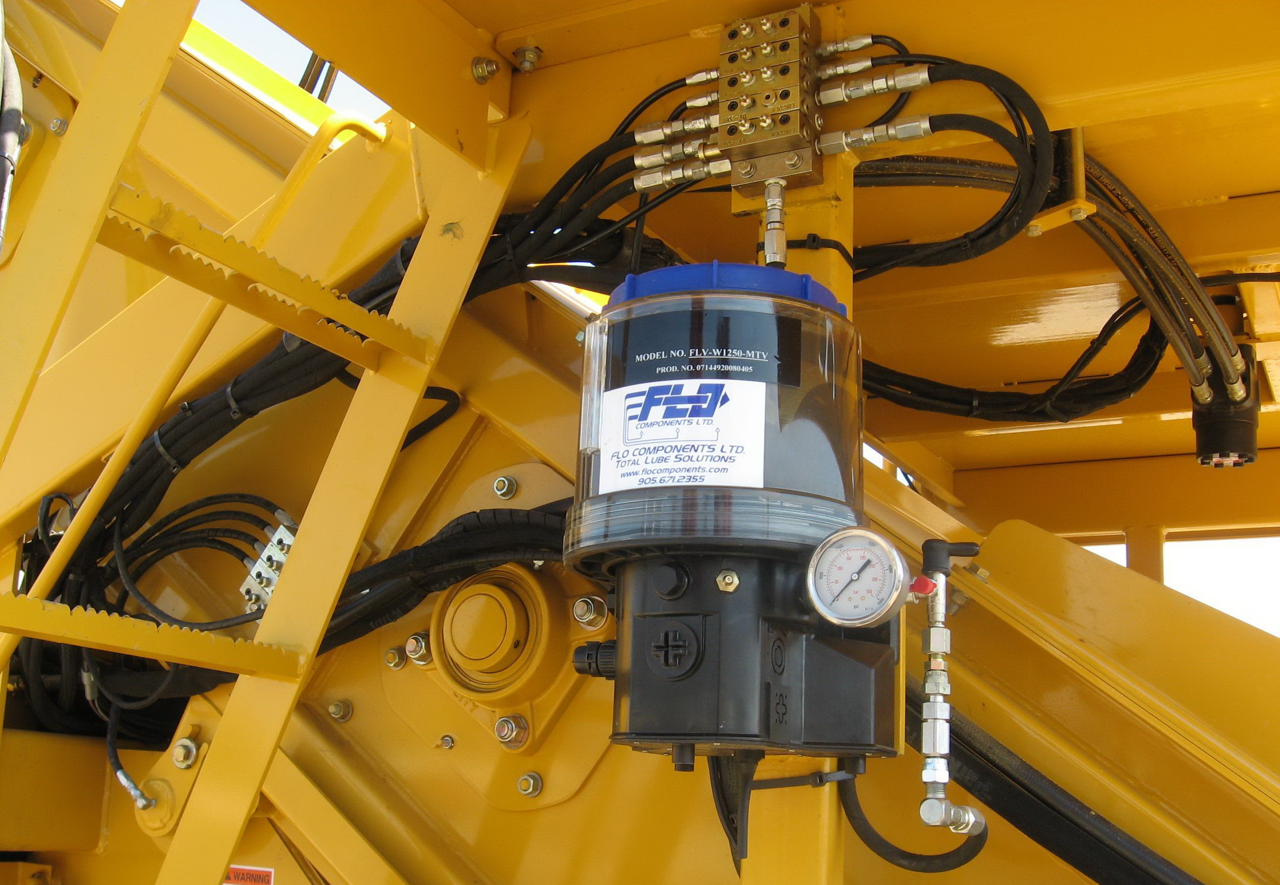 This picture shows an Automatic Lubrication System of of FLO Components Ltd.